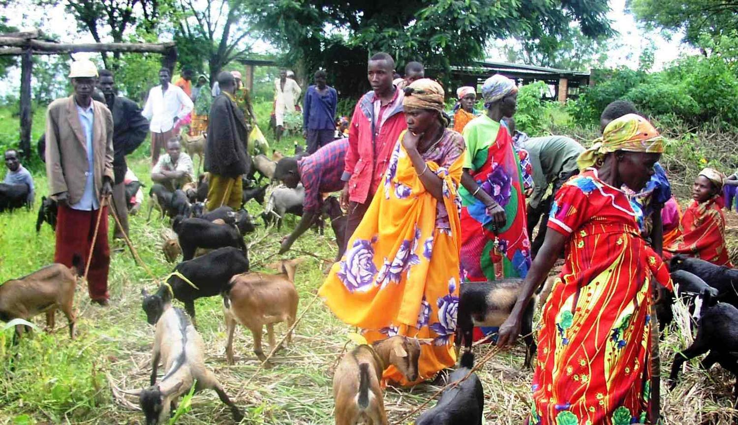 A group of Burundian women rearing goats(original title: "bur1_karusi_goats.jpg – Goats can provide a valuable source of income for those in rural areas")